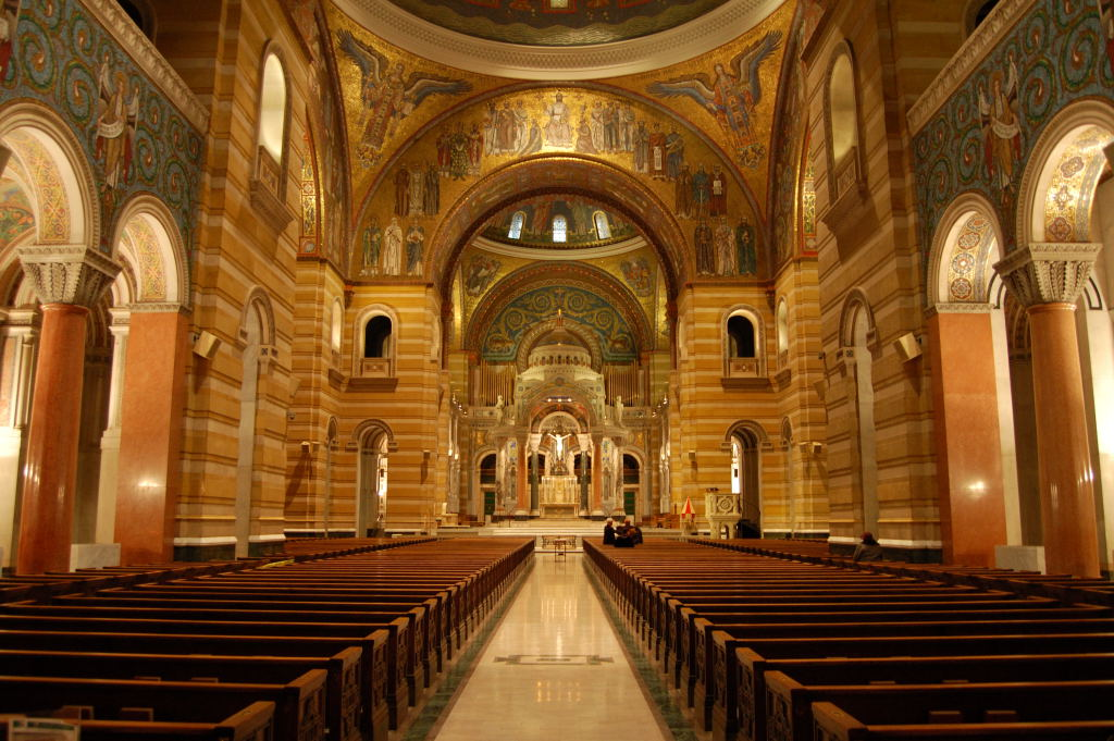 Cathedral Basilica of St. Louis in St. Louis, Missouri